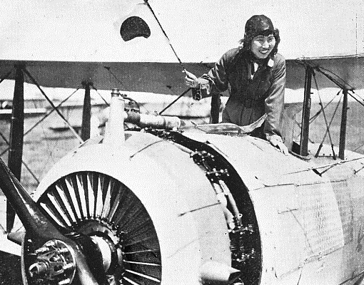 Park Kyung-won